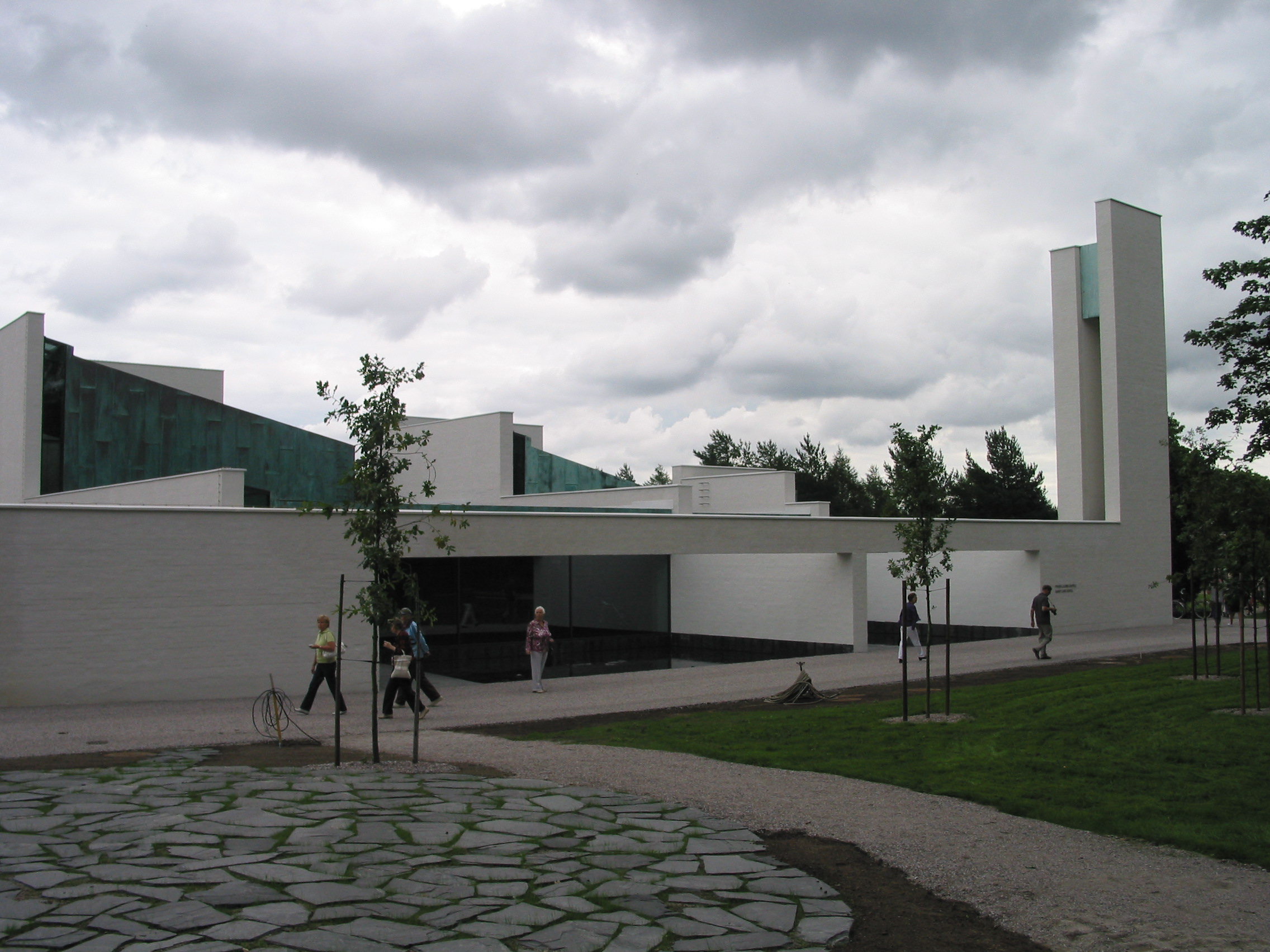 St. Lawrence chapel in Vantaa, Finland